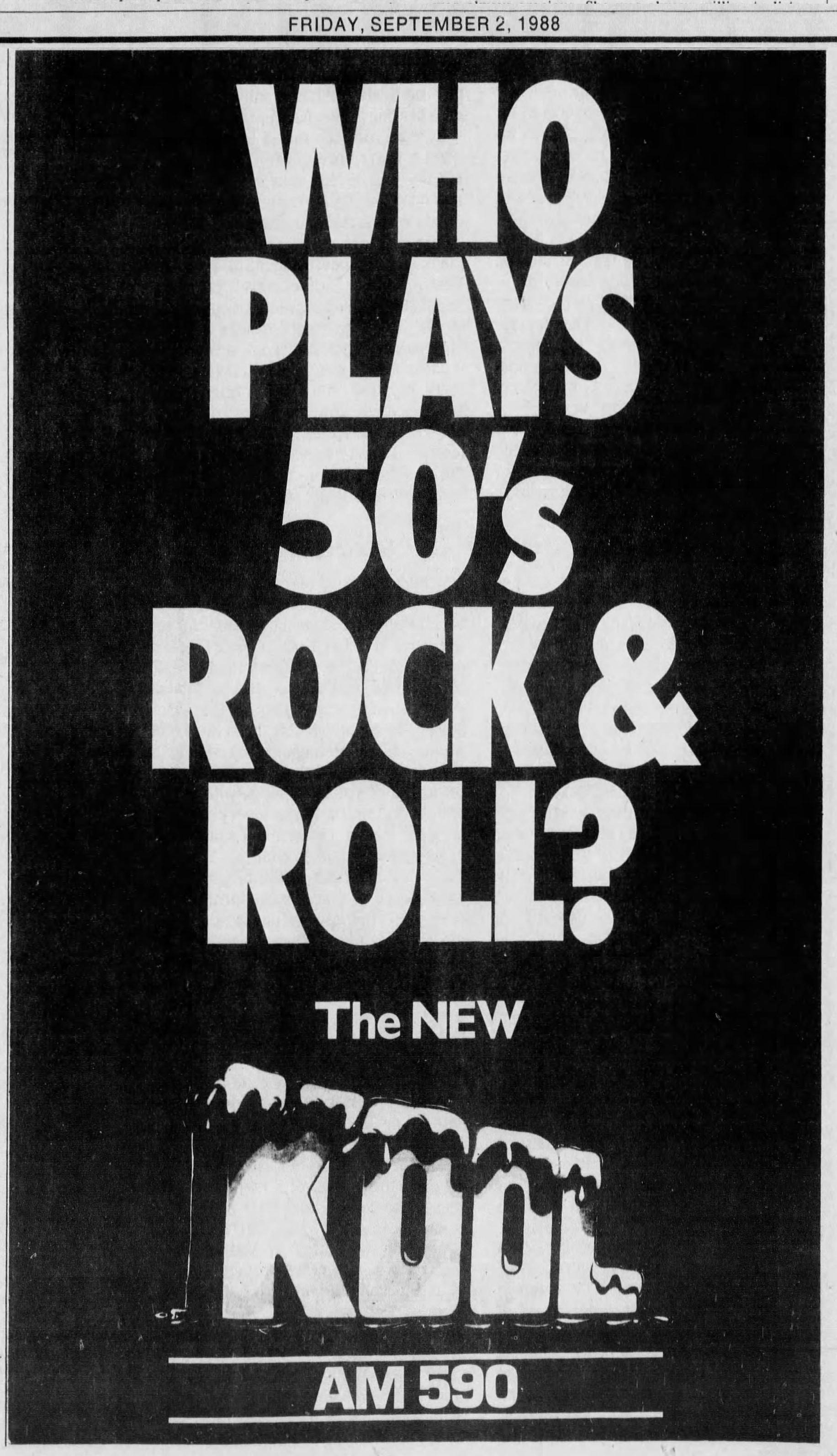 WKLL ad from the St. Louis Post-Dispatch during the KOOL-590 transition in early September, 19